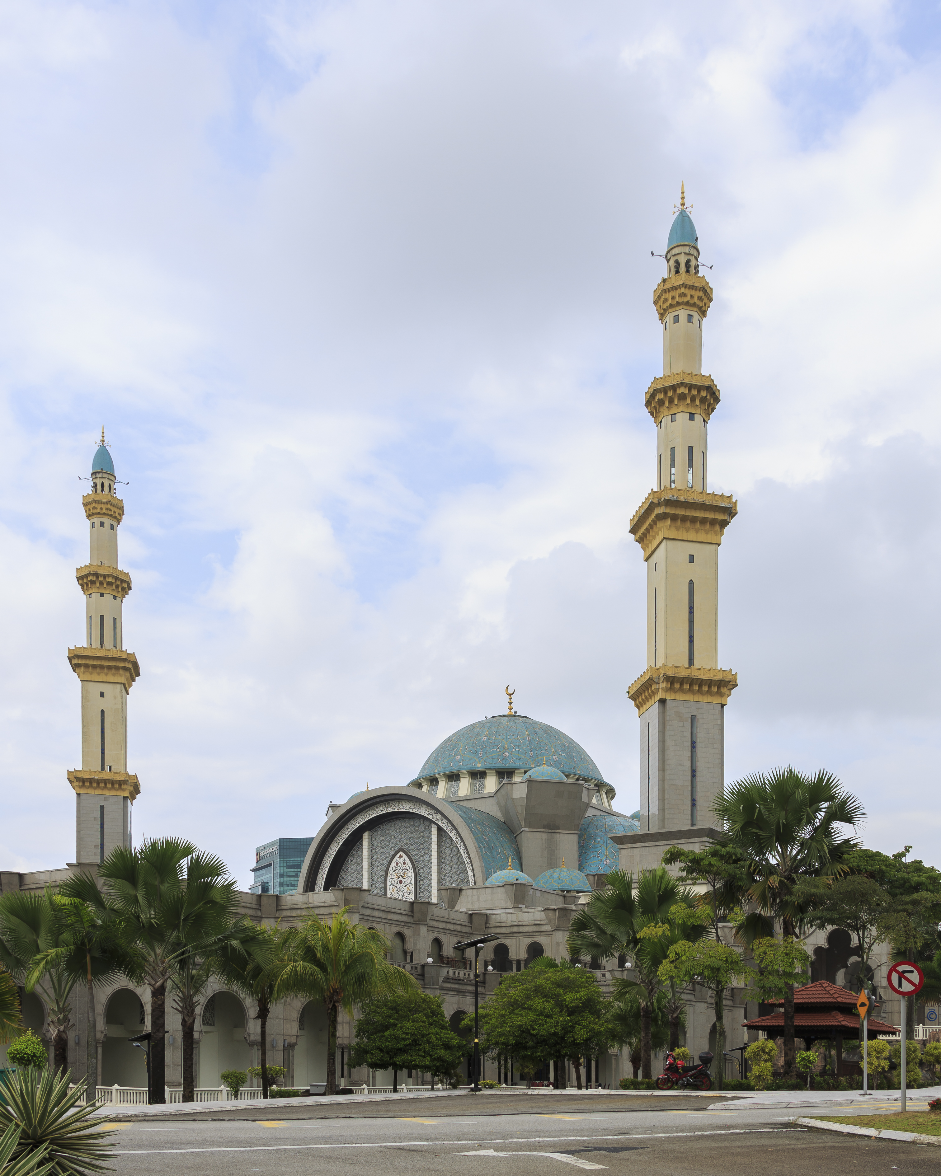 Kuala Lumpur, Malaysia: Federal Territory Mosque / Masjid Wilayah Persekutuan (Kuala Lumpur)